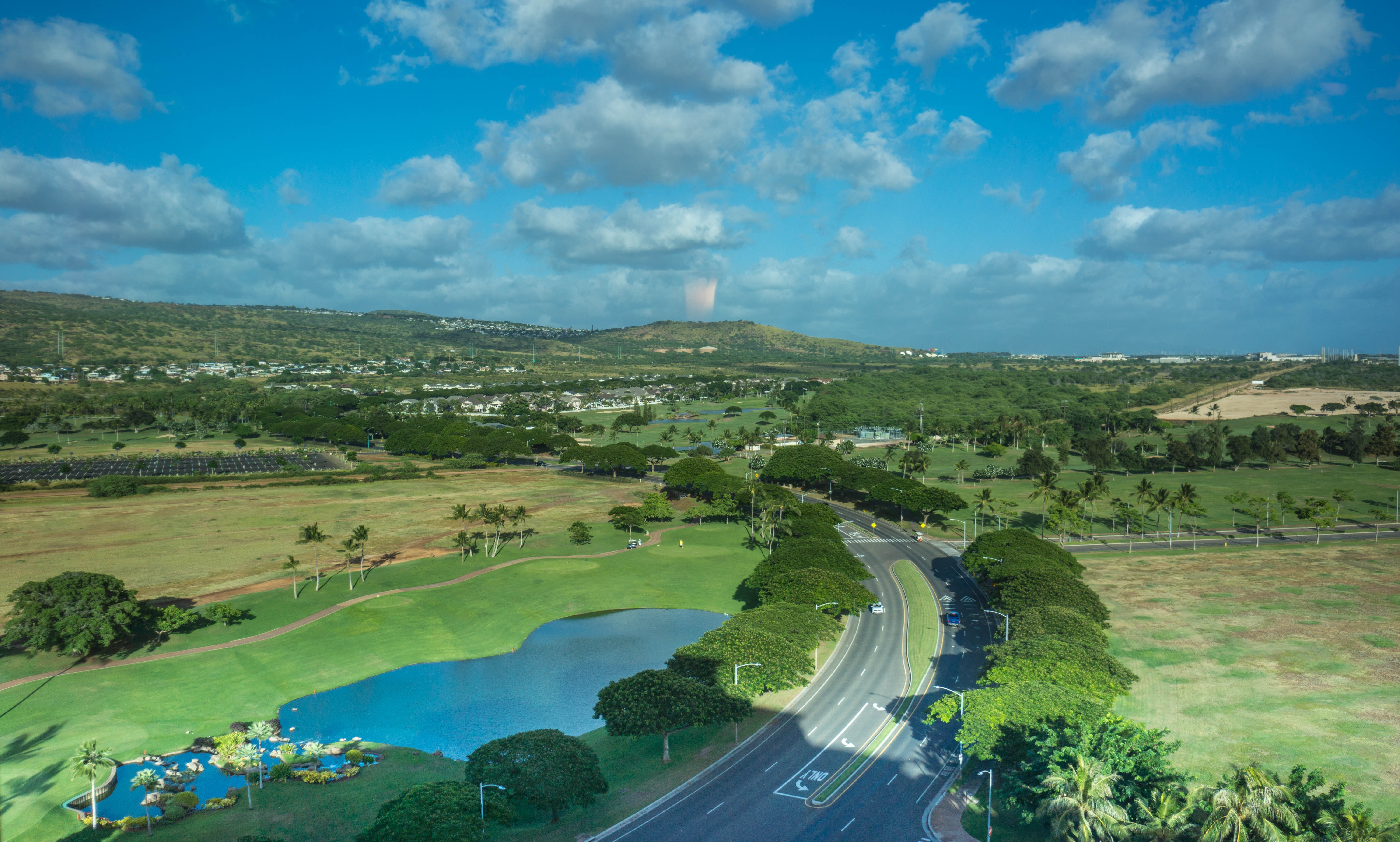 Ko Olina region of Oahu, Hawaii